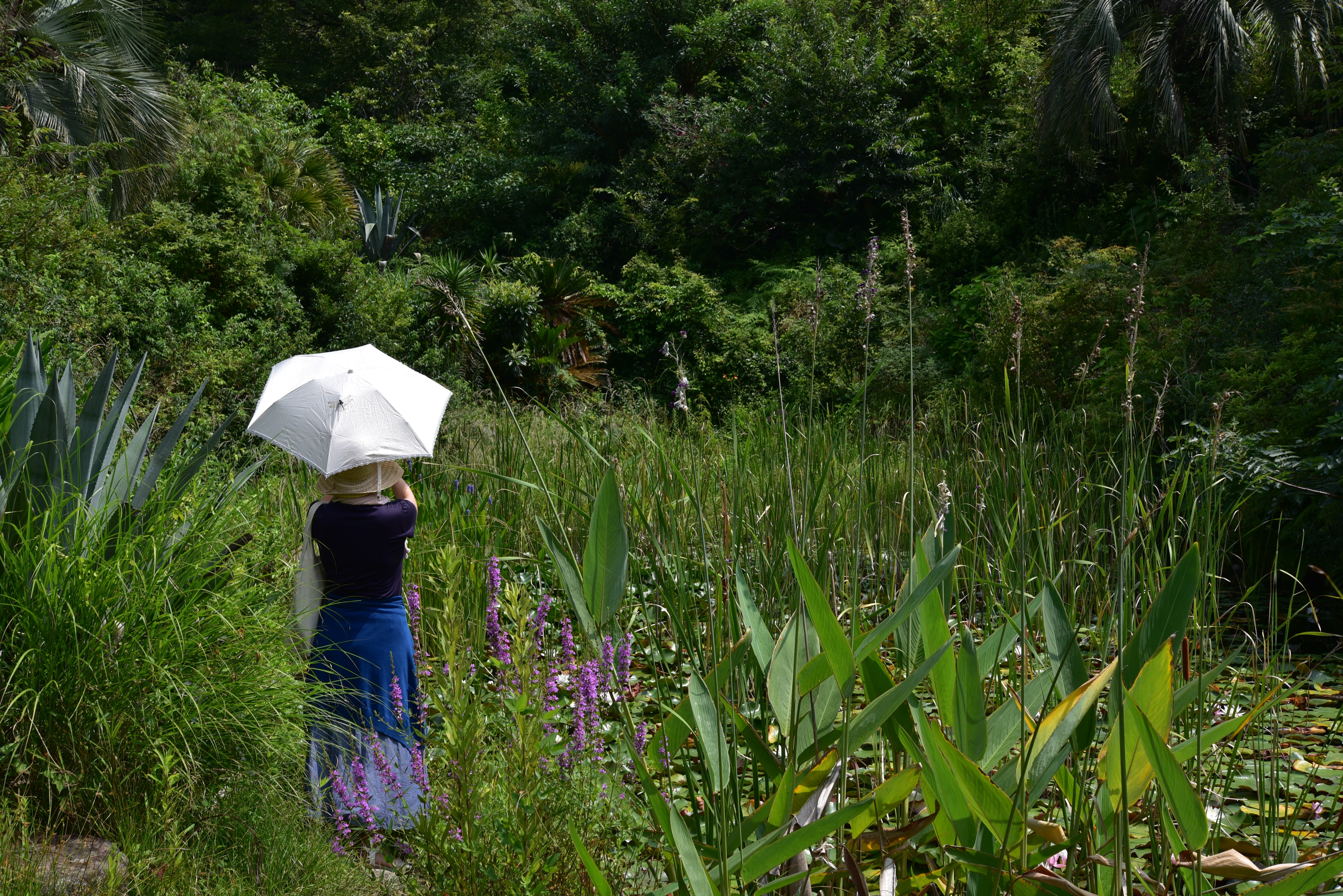 This is not a work of art. Monet of the name has been officially permitted from Monet Foundation. Nikon D750